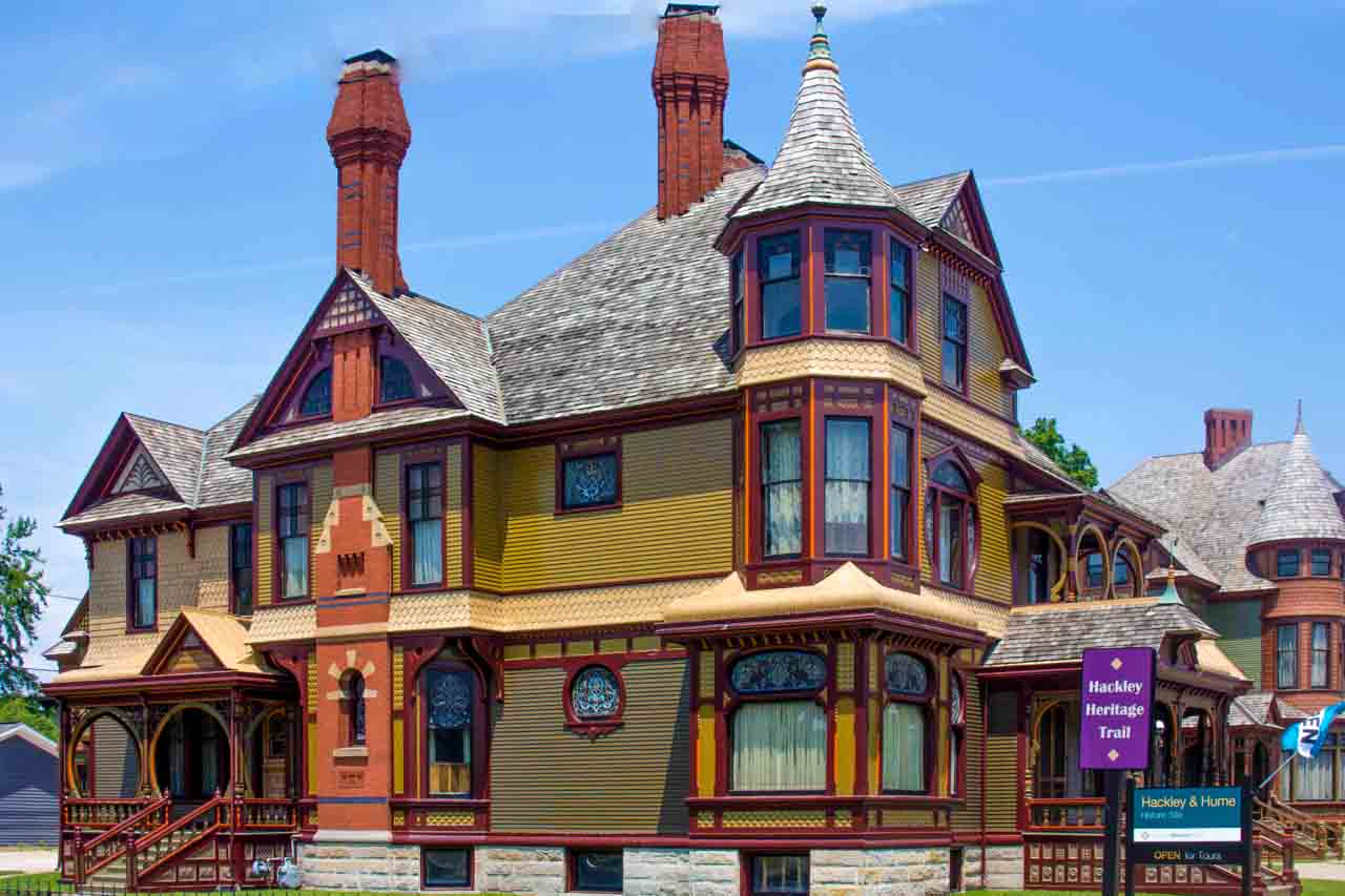 Home of Lumber Baron Charles Hackley